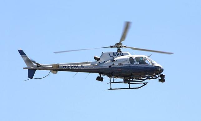 LAPD AS350 landing at Hooper Heliport